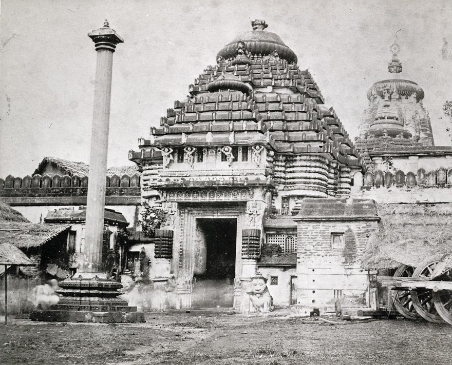 Photograph of the Lion Gateway (Singhadwara) of the Jagannatha Temple at Puri, taken by an unknown photographer around 1870. Puri, a town on the east coast of India in the state of Orissa.